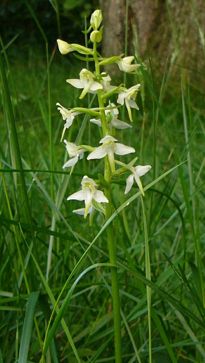 Platanthera chlorantha, Romeleåsen, Skåne, Sweden